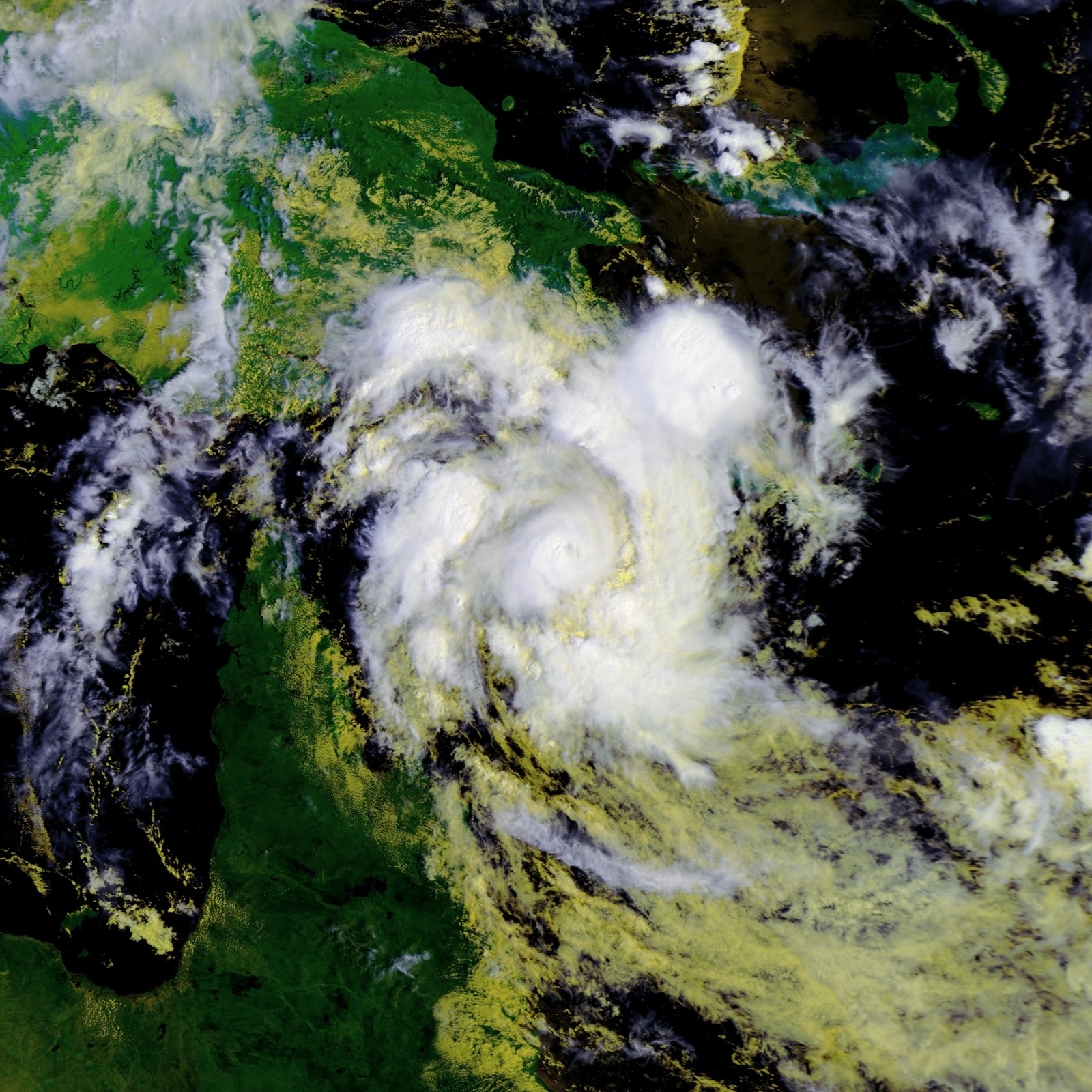 Tropical Cyclone Guba on November 15 at approximately 2343 UTC. This image was produced from data from MetOp-2/A, provided by NOAA.